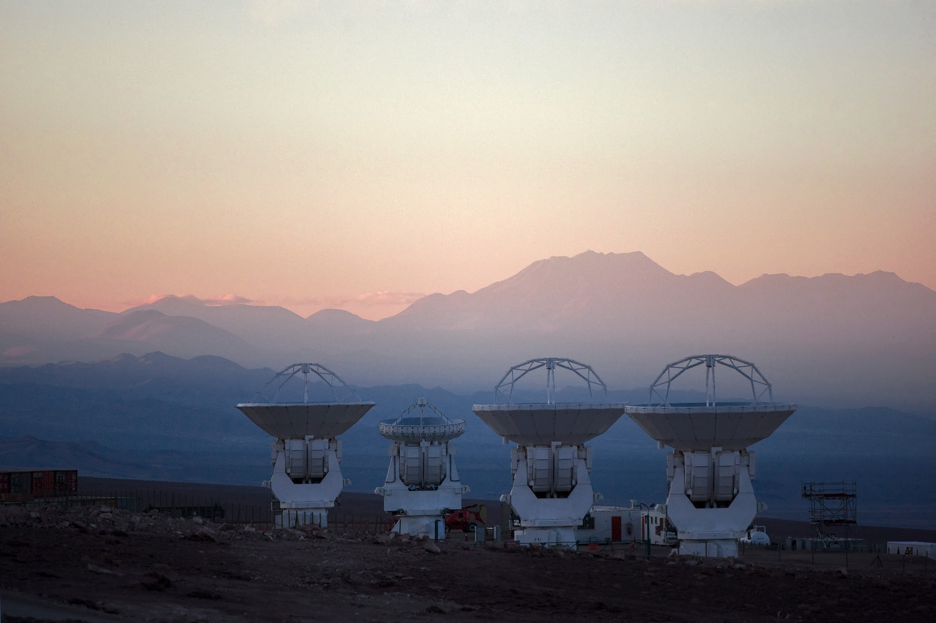 Four large antennas for the Atacama Large Millimeter/submillimeter Array (ALMA) thrust to the sky at the Operations Support Facility (OSF), 2900 m above sea level. ALMA is the largest ground-based astronomy project in existence, and will be comprised of a giant array of fifty 12-m submillimetre quality antennas, with baselines of up to 16 kilometres. An additional, compact array of 7-m and 12-m antennas will complement the main array. Construction of ALMA started in 2003 and will be completed around 2012. The ALMA project is an international collaboration between Europe, East Asia and North America in cooperation with the Republic of Chile.